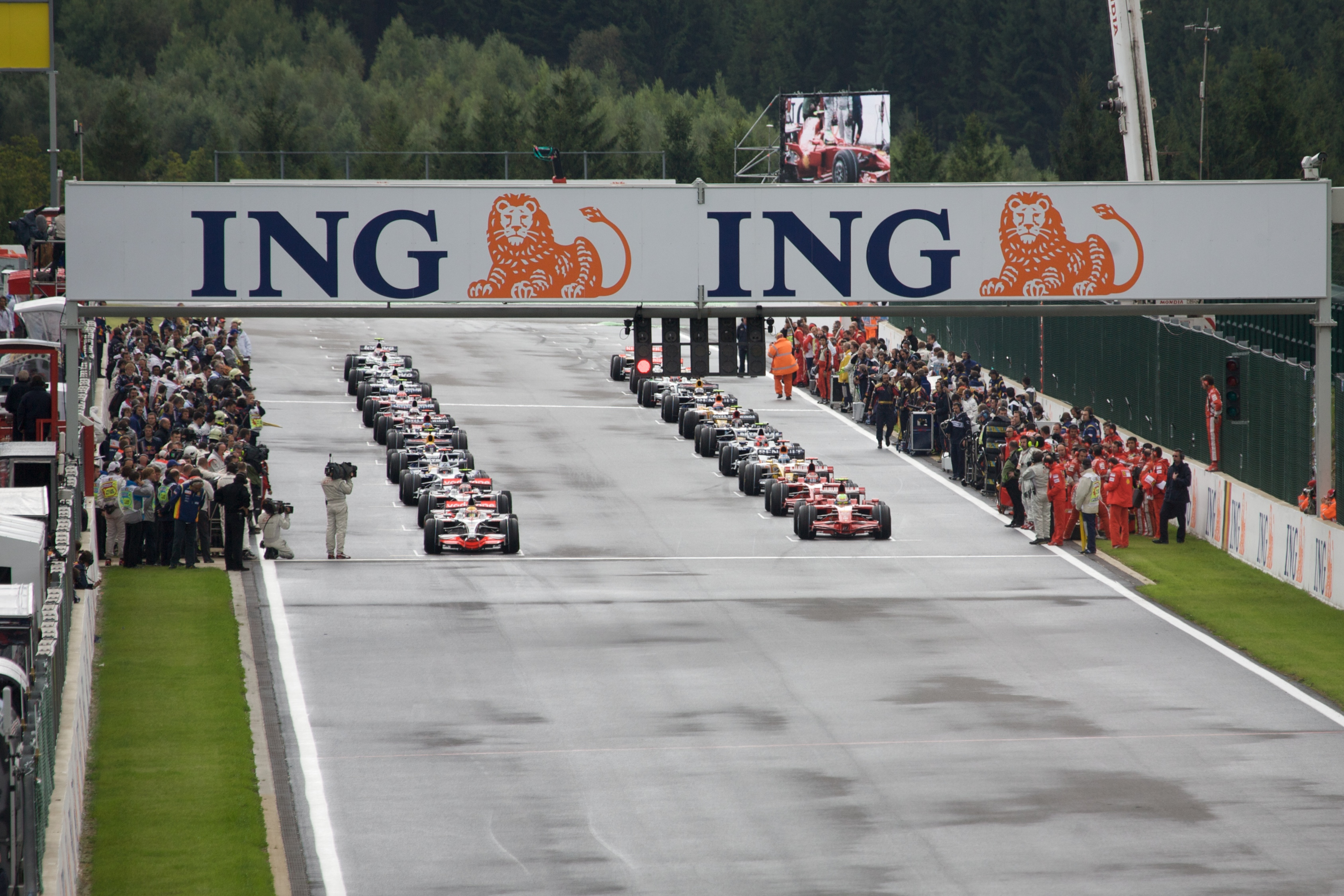 About to start the Formation Lap